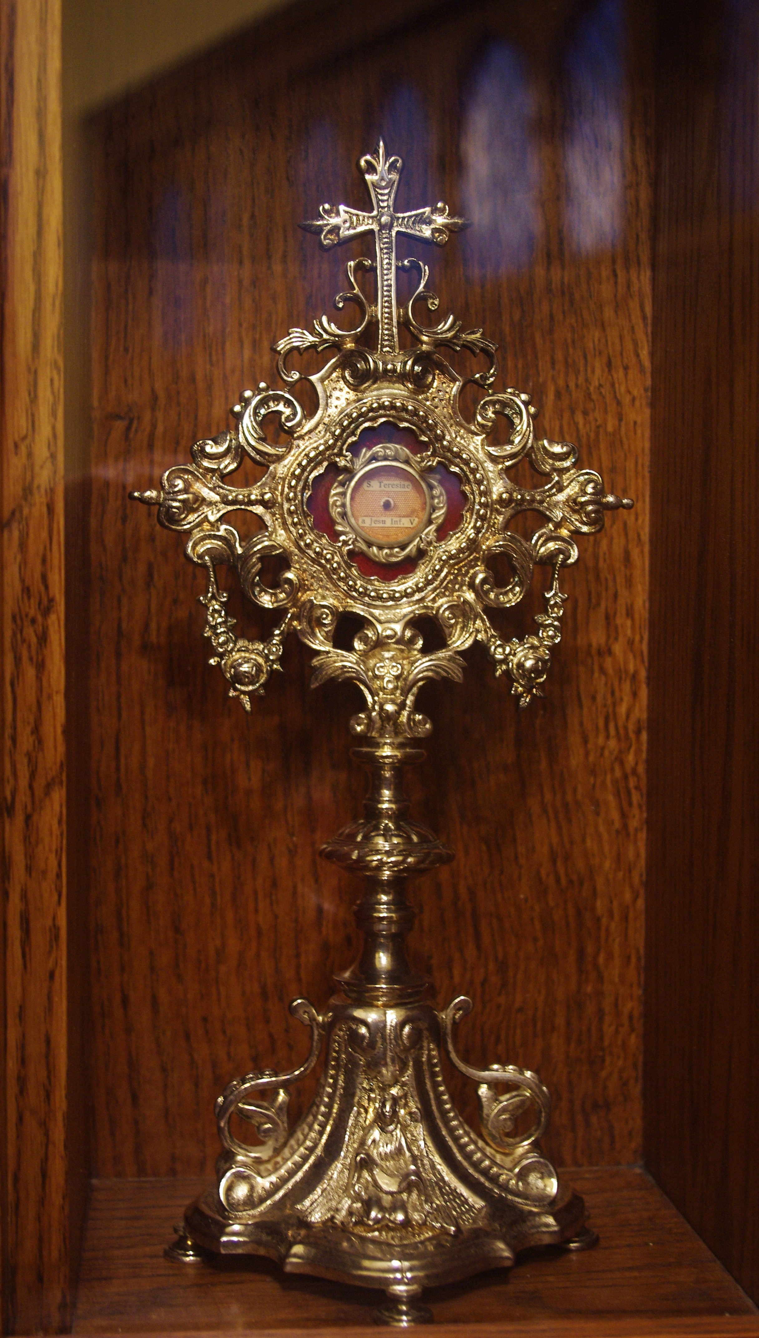 Saint Patrick Church (Columbus, Ohio) - relic of St. Thérèse of Lisieux